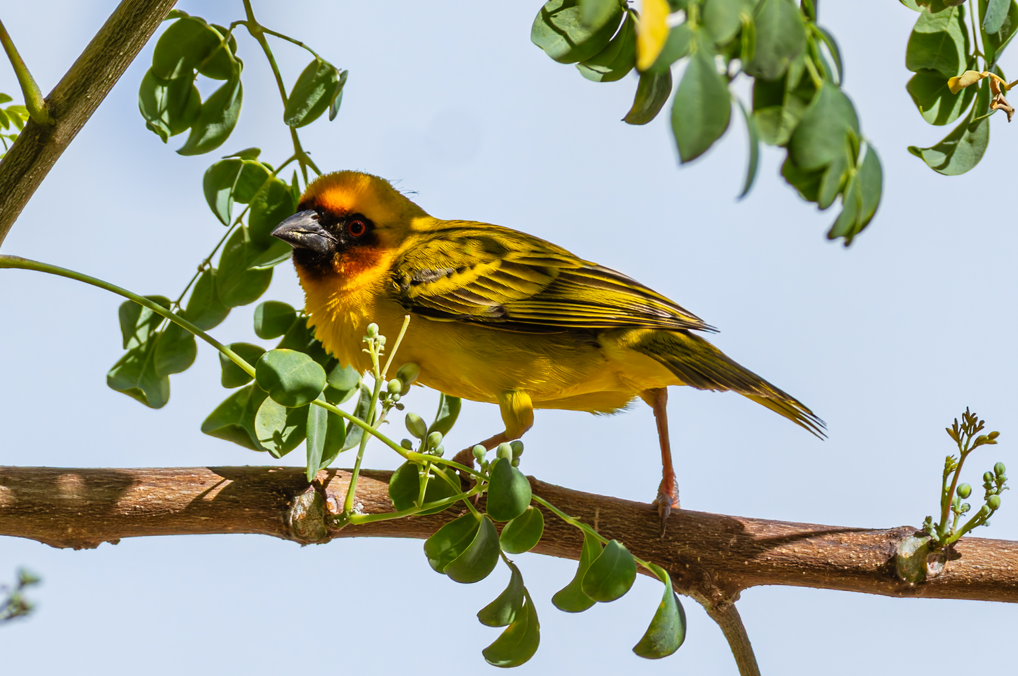 Rüppell's weaver (Ploceus galbula), Salalah, Oman